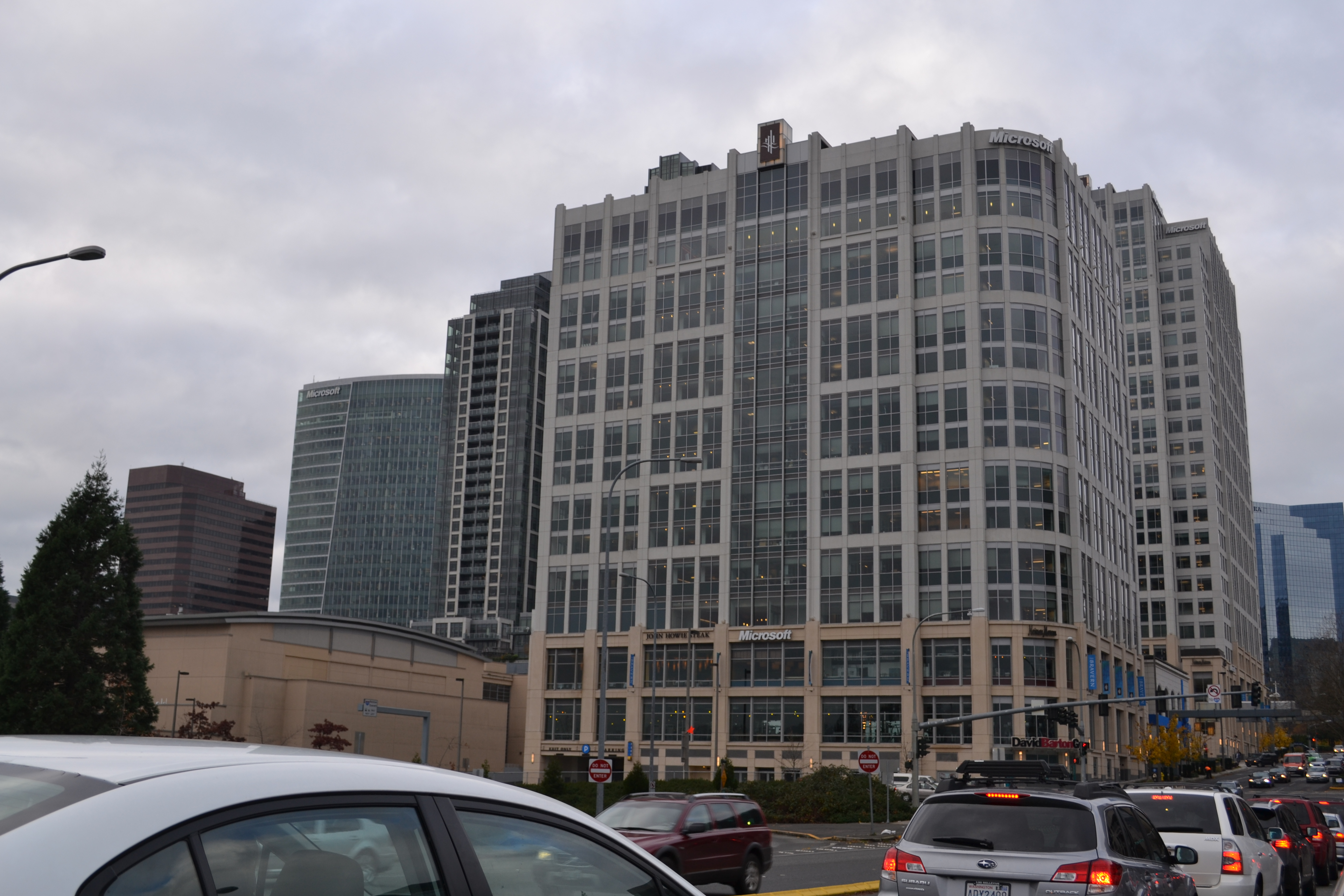 NE 8th and Microsoft Bravern building